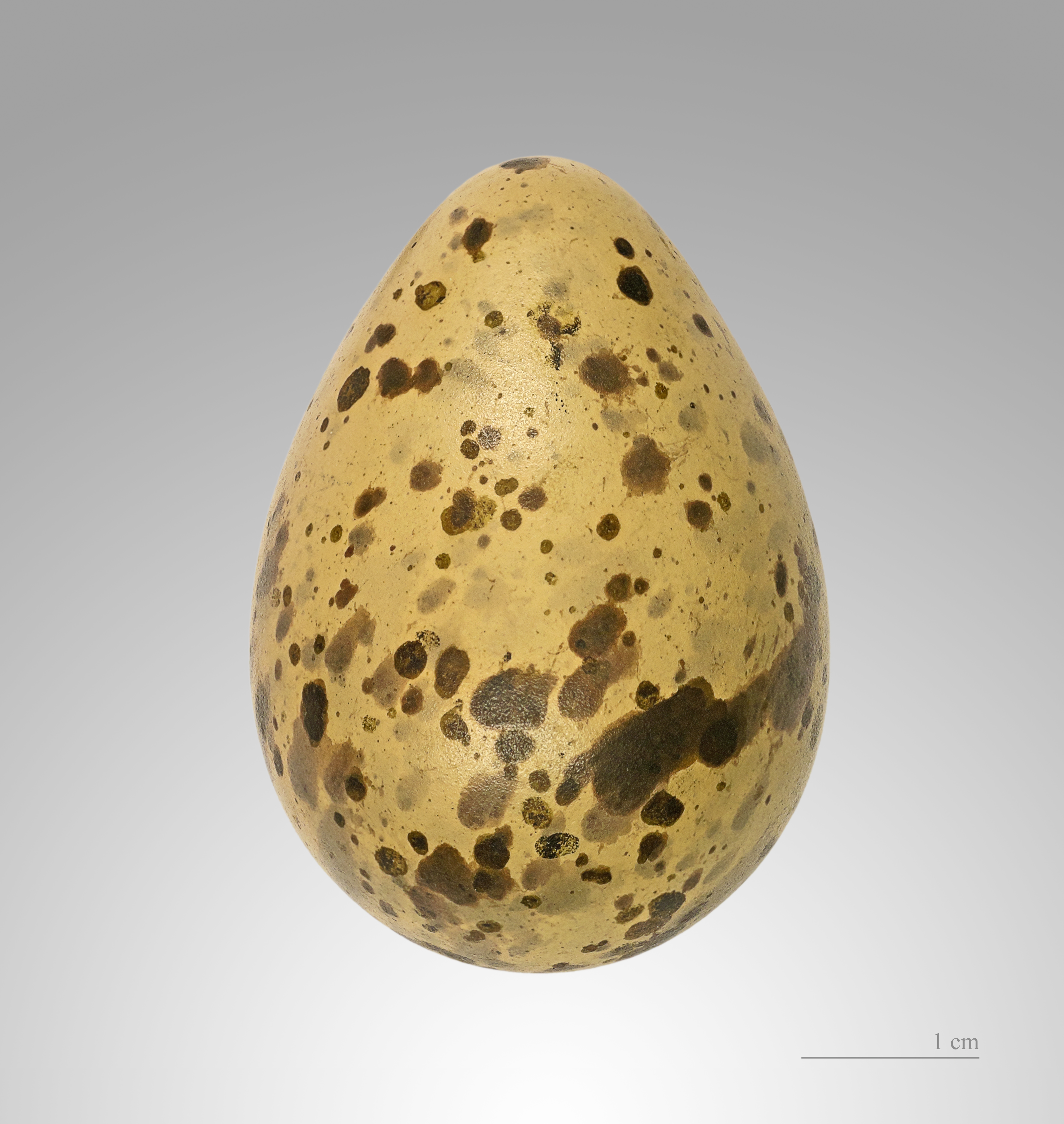 Egg of Great Snipe. Collection of Jacques Perrin de Brichambaut